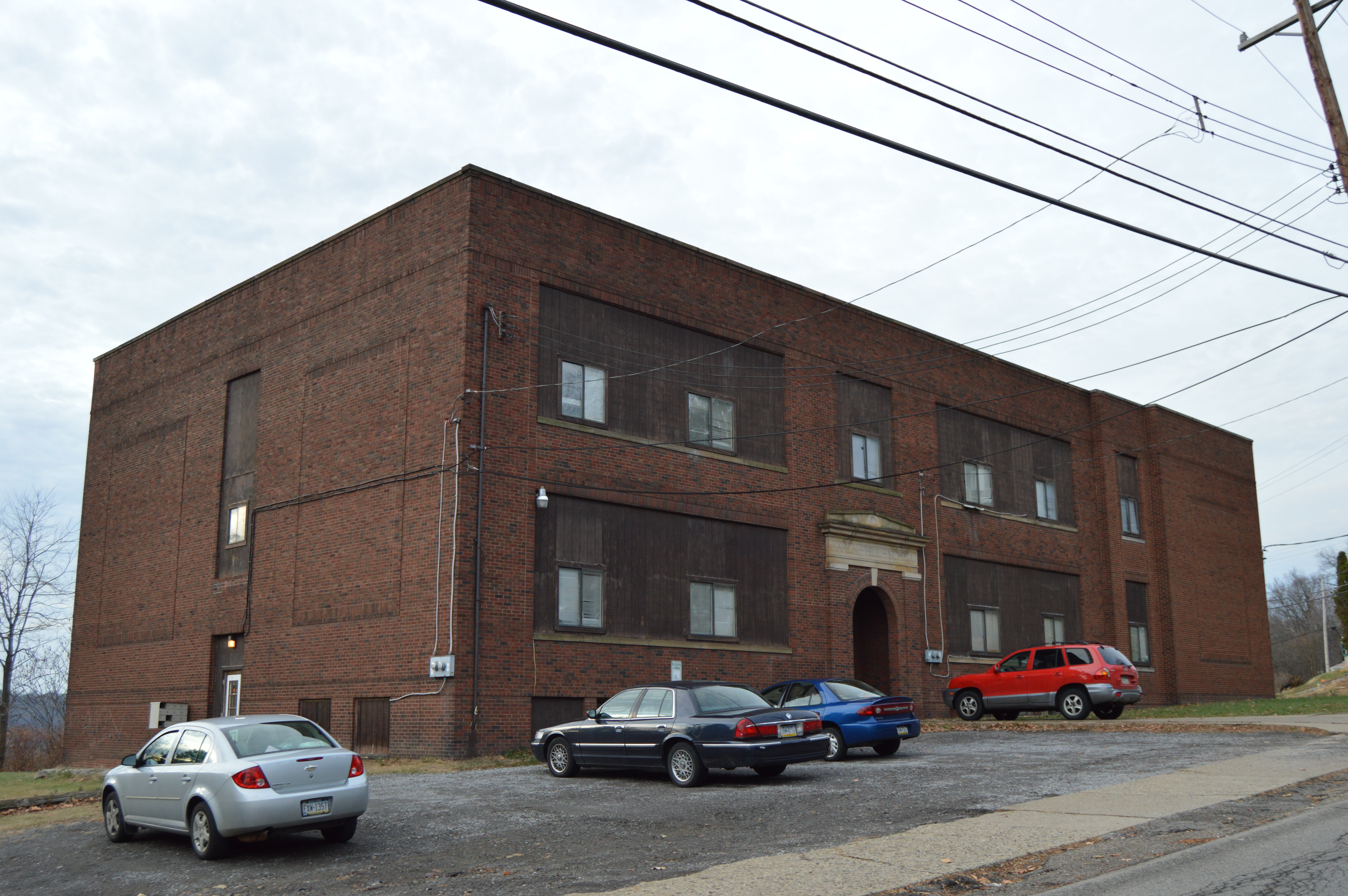 Front of the old Marion Hill School, located on the western side of 34th Avenue at the 43rd Street intersection in Pulaski Township, Beaver County, Pennsylvania, United States.